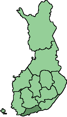 The Finnish province of Uusimaa (Uudenmaan lääni) as of 1997